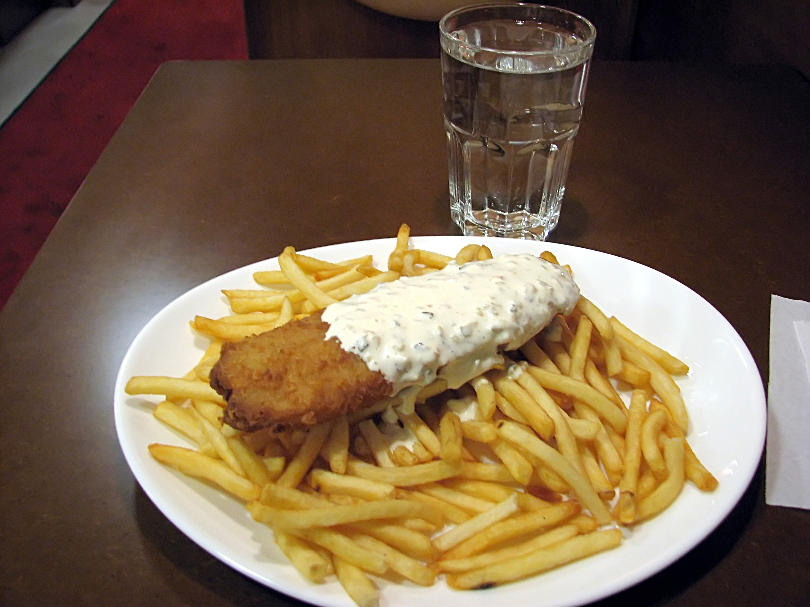 A plate of fish and chips in Stadin Kebab, Helsinki, Finland.